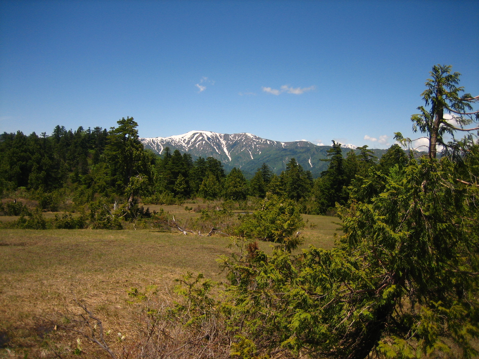 A picture of mountains inside Oze National Park in Japan. Mixed conifer forest with (right foreground) Chamaecyparis pisifera. Picture was taken with a Canon Power Shot SD450 Digital Elph camera.